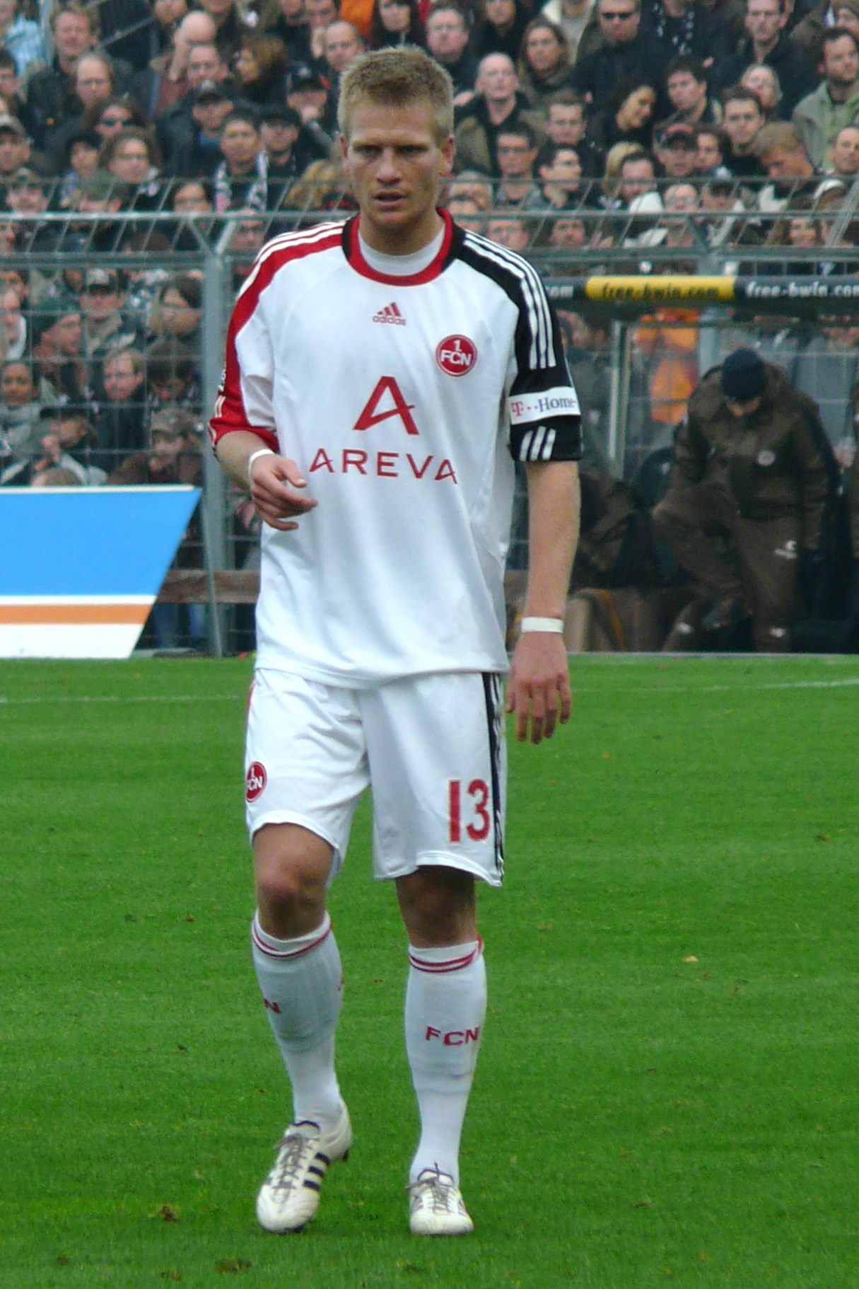 Peter Perchtold as Player from 1. FC Nürnberg